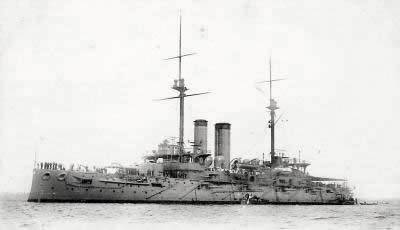 Photo of Japanese battleship Asahi on completion in the UK, 1900